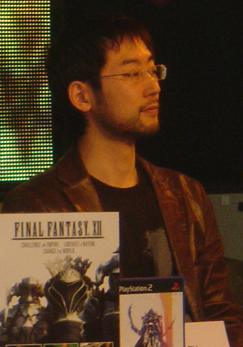 Hiroshi Minagawa at the Final Fantasy XII London HMV Launch Party in 2007.